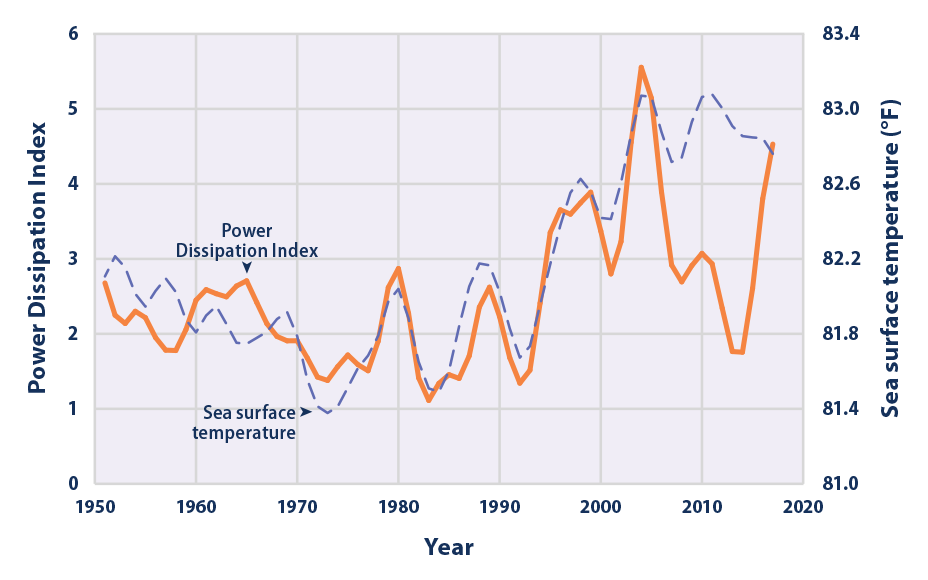 North Atlantic Tropical Cyclone Activity According to the Power Dissipation Index, 1949–2015 This figure presents annual values of the Power Dissipation Index (PDI), which accounts for cyclone strength, duration, and frequency. Tropical North Atlantic sea surface temperature trends are provided for reference. Note that sea surface temperature is measured in different units, but the values have been plotted alongside the PDI to show how they compare. The lines have been smoothed using a five-year weighted average, plotted at the middle year. The most recent average (2011–2015) is plotted at 2013. Data source: Emanuel, K.A. 2016 update to data originally published in: Emanuel, K.A. 2007. Environmental factors affecting tropical cyclone power dissipation. J. Climate 20(22):5497–5509.